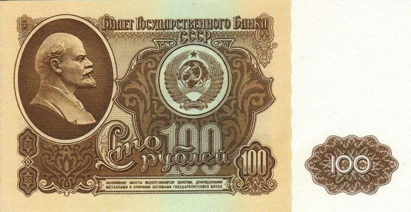 1961 Soviet Union 100 rubles bill obverse See also other side Image:Soviet Union-1961-Bill-25-Reverse.jpg